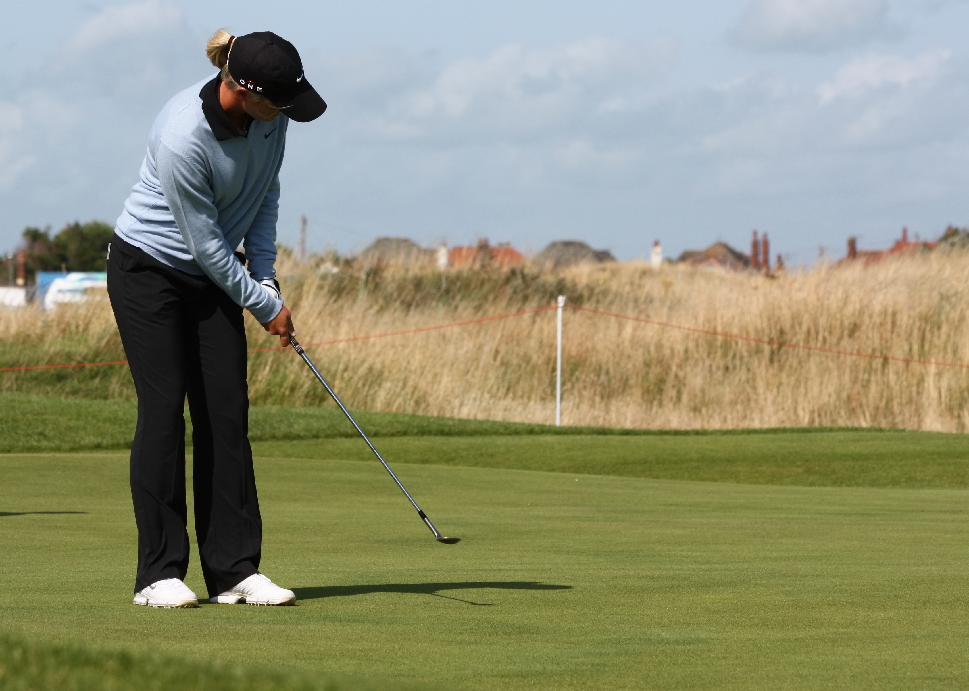 LYTHAM ST ANNES, UNITED KINGDOM - JULY 27: Suzann Pettersen of Norway on the 4th green during first practice round before 2009 Ricoh Women's British Open held at Royal Lytham & St Annes on July 27, 2009 in Lytham St Annes, England. (Photo by Wojciech Migda)